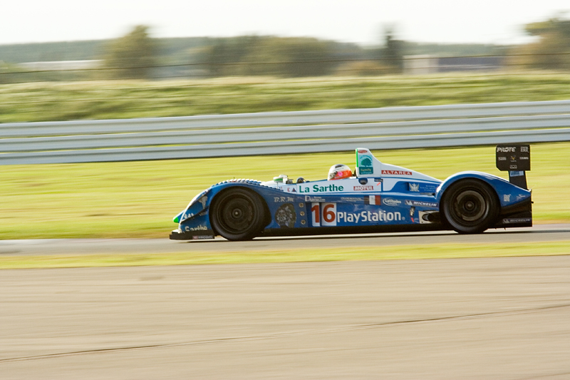 Pescarolo Sport's Pescarolo 01-Judd at the 2007 1000 km of Silverstone.